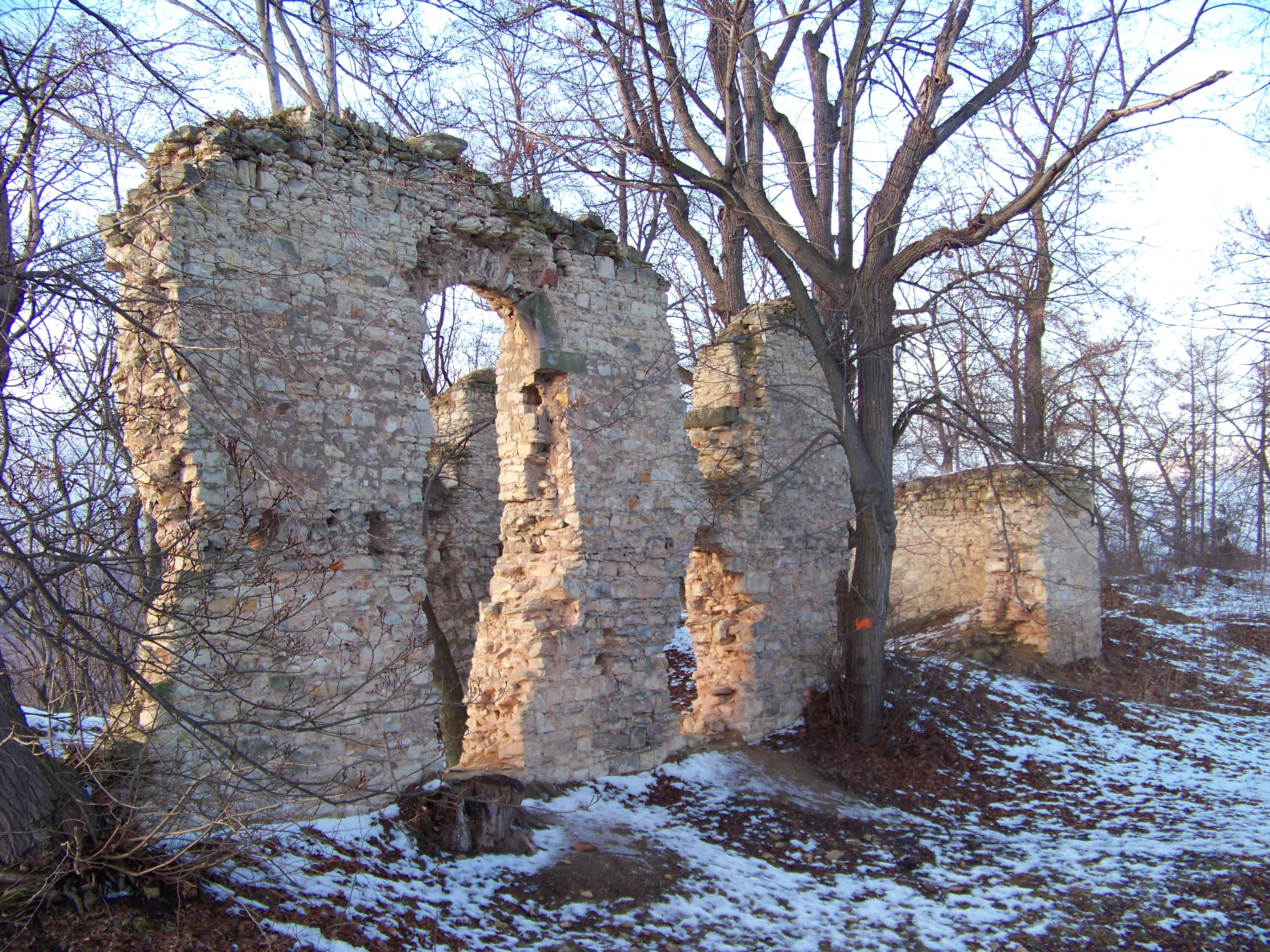 Ruin of Pravda Castle. Pnětluky, Louny District, the Czech Republic.